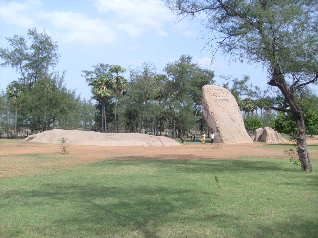 Rocks in the Tiger Cave temple complex. Inscriptions on one of these rocks led to the discovery of the Subrahmanya Temple in Saluvankuppam